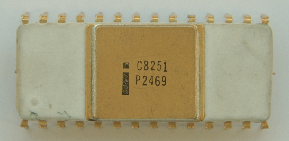 IC photo